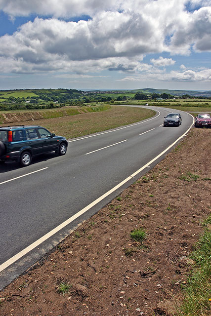 Brandish This corner of the TT circuit was redesigned in 2007 to allow it to be taken rather faster (the official reason is that it was a dangerous bend). Visibility has been improved and the bend is less sharp.